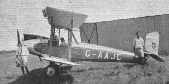 Blackburn Bluebird IV of Rhodesian Aviation Company